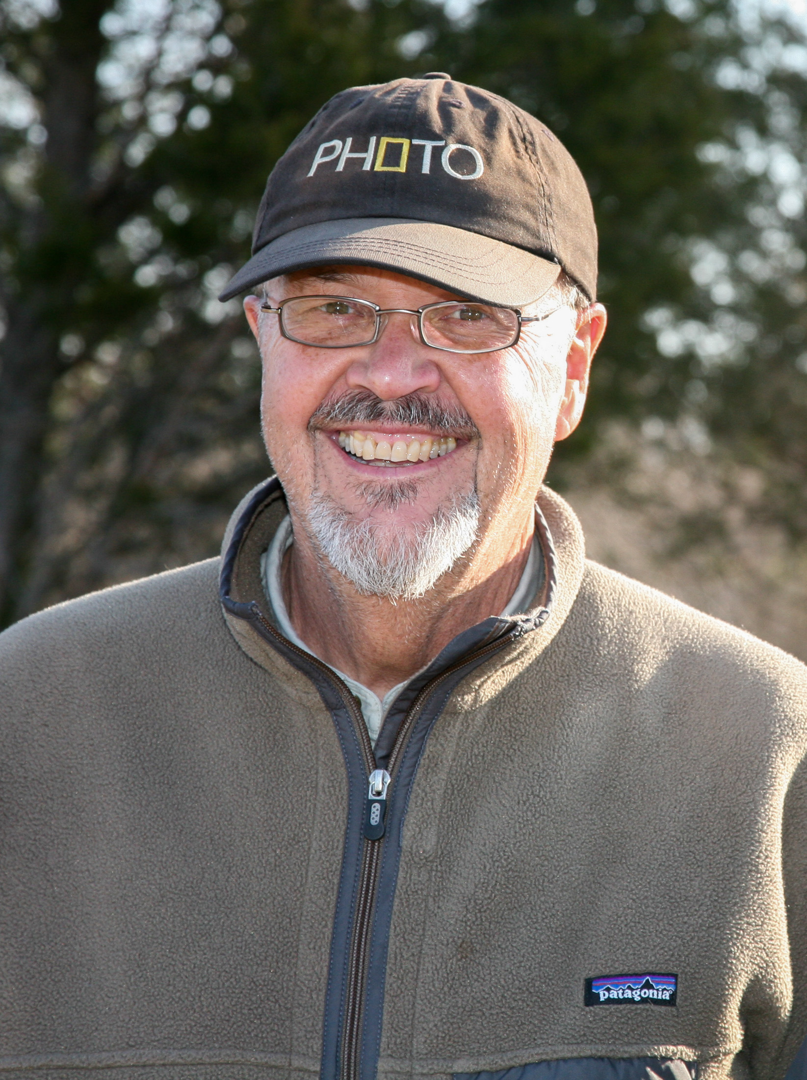 Pulitzer-prize winning photographer Jack Dykinga in 2008.